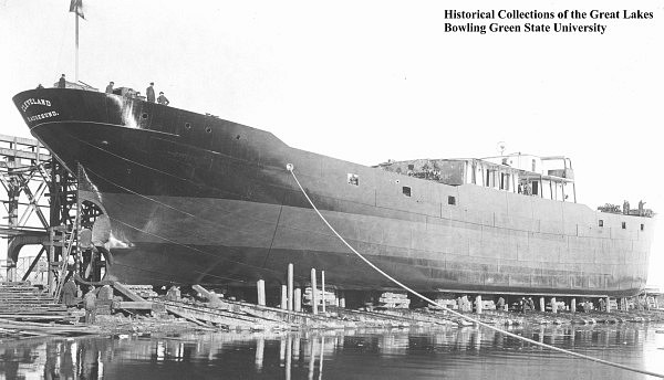 Cleveland AKA DS Else Marie